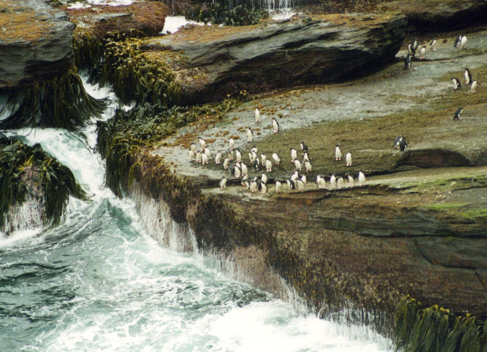 Photo of Eudyptes chrysocome (rockhopper penguin) group at water's edge, New Island, Falkland Islands